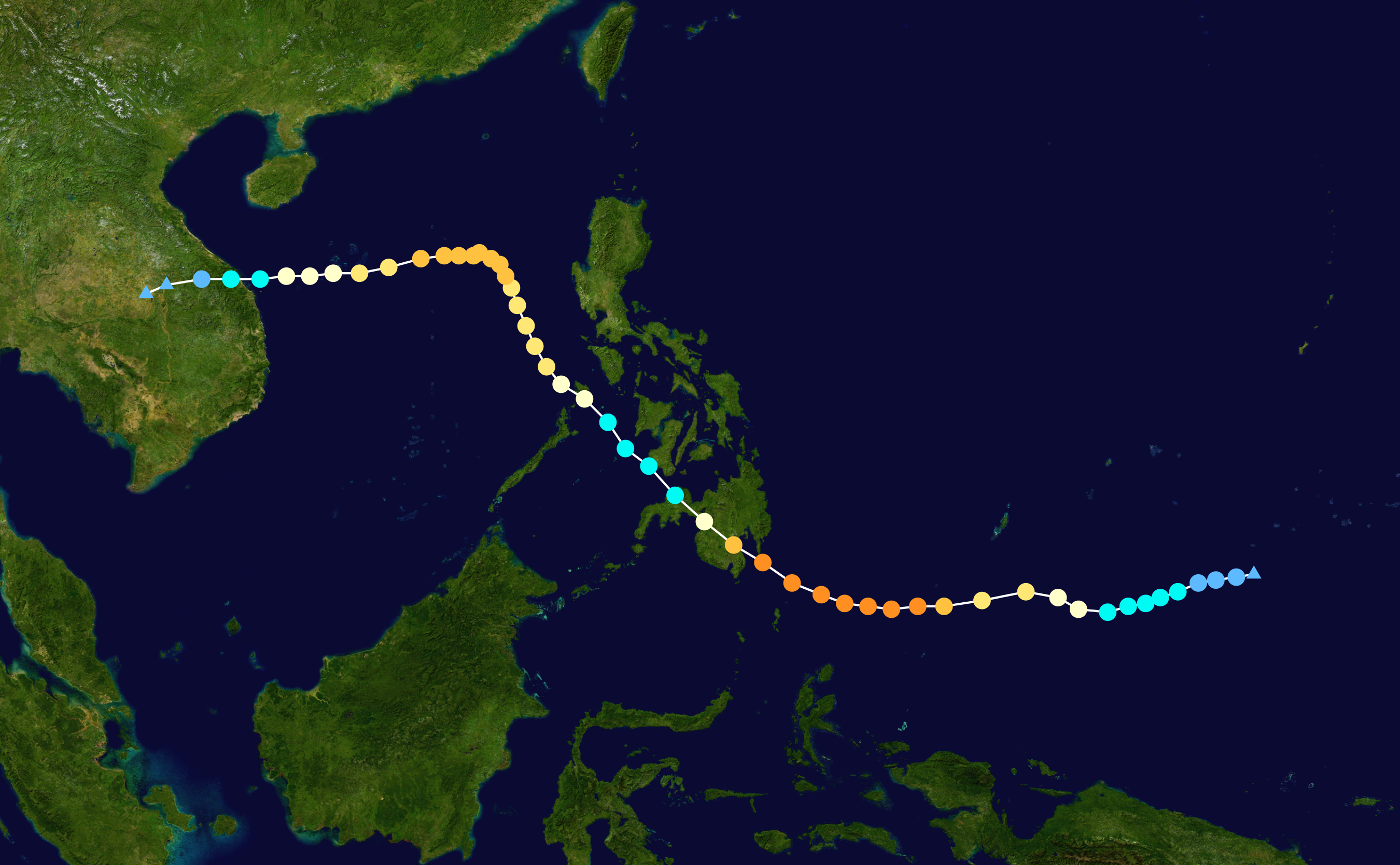 Track map of Typhoon Kate of the 1970 Pacific typhoon season. The points show the location of the storm at 6-hour intervals. The colour represents the storm's maximum sustained wind speeds as classified in the Saffir–Simpson hurricane wind scale (see below), and the shape of the data points represent the nature of the storm, according to the legend below. Saffir–Simpson hurricane wind scale Tropical depression≤38 mph≤62 km/h Category 3111–129 mph178–208 km/h Tropical storm39–73 mph63–118 km/h Category 4130–156 mph209–251 km/h Category 174–95 mph119–153 km/h Category 5≥157 mph≥252 km/h Category 296–110 mph154–177 km/h Unknown Storm typeTropical cycloneSubtropical cycloneExtratropical cyclone / Remnant low / Tropical disturbance